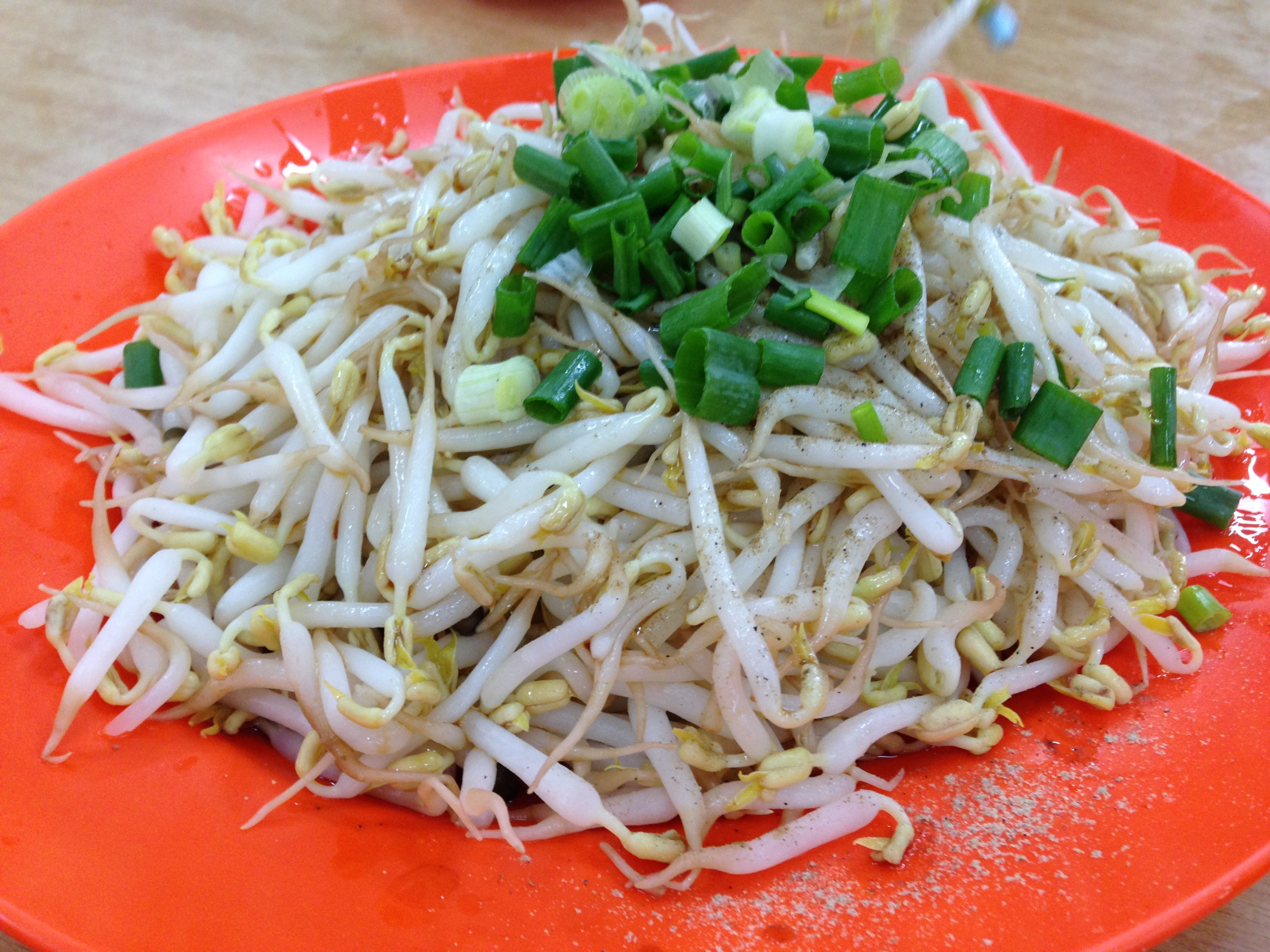 Bean sprouts in Ipoh